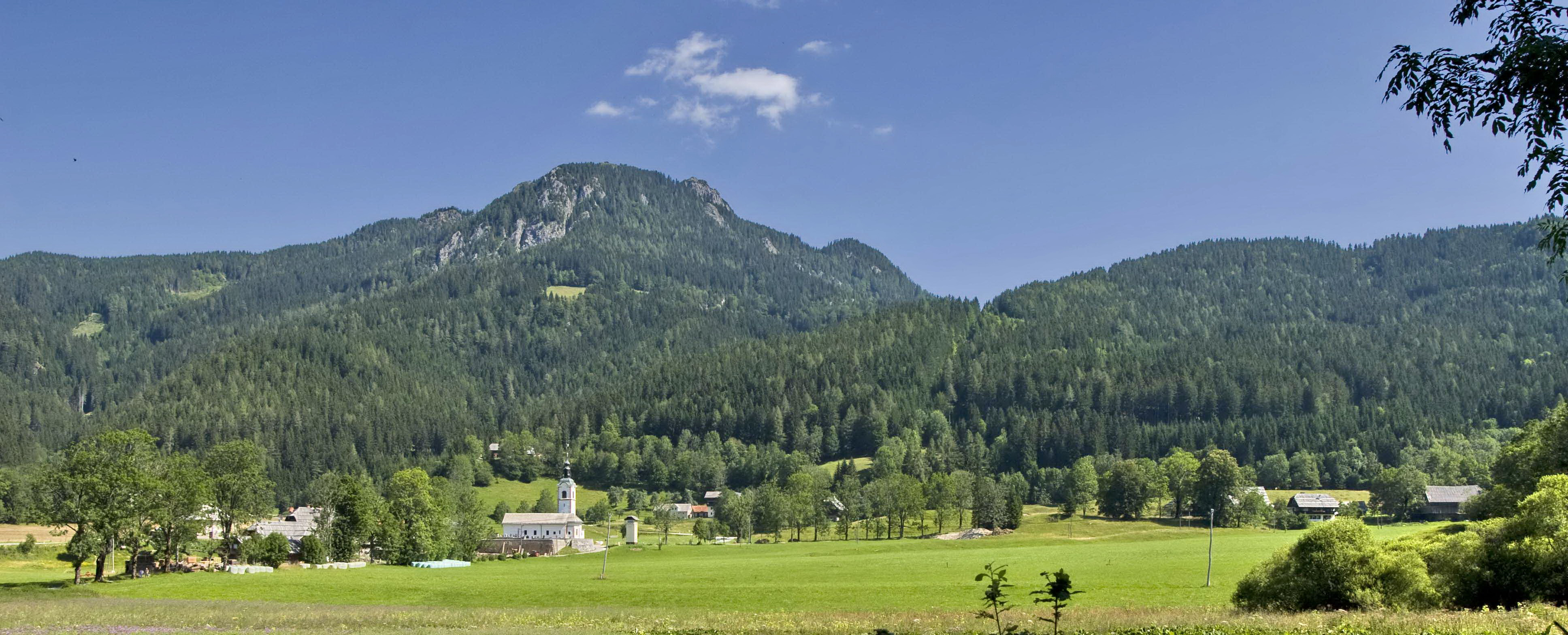 Jezersko